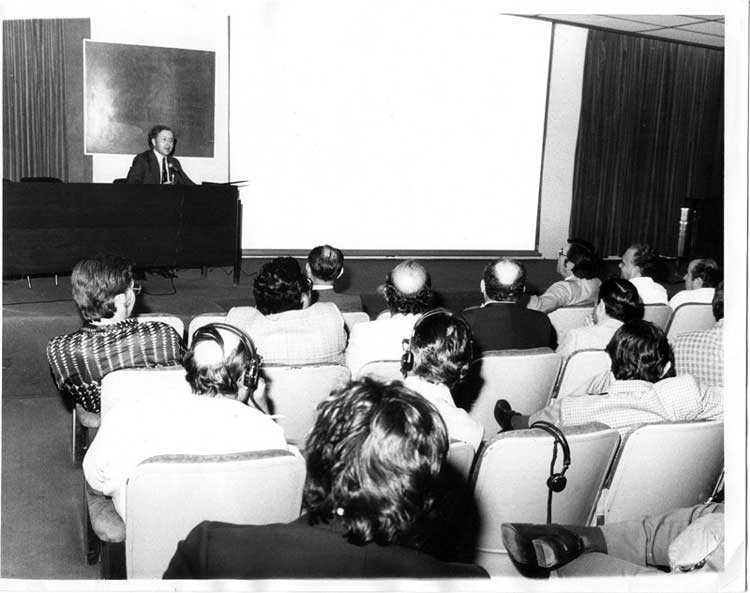 Prof S Selwyn presenting a lecture in Monterrey (Mexico) in 1978.